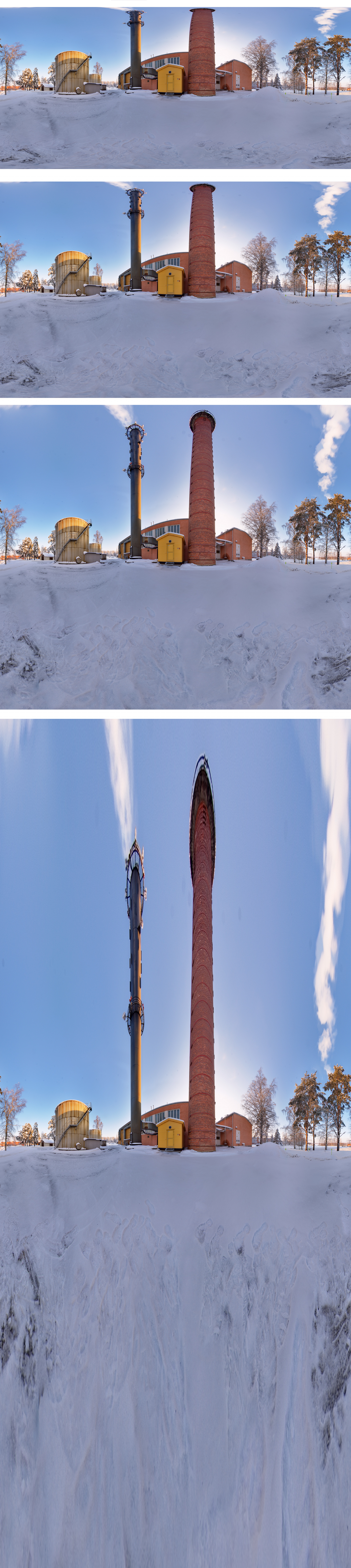 Comparison of various panoramic image formats with vertical field of view of 165 degrees, sorted by height of the finished bitmap. First image is equirectangular (aka spherical), second one is Miller cylindrical, third one is Mercator projection and fourth one is plain cylindrical projection.